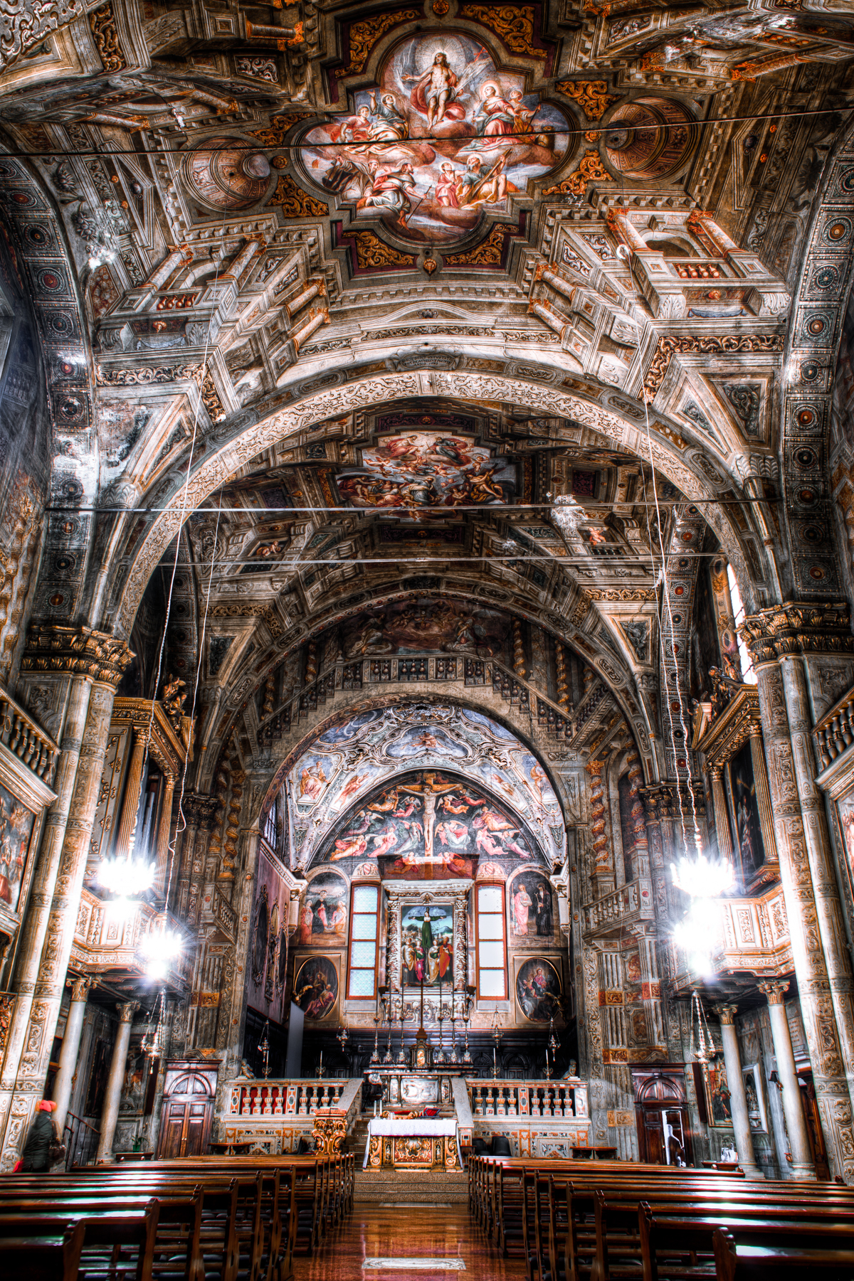 Sant'Agata Church, Brescia, Italy